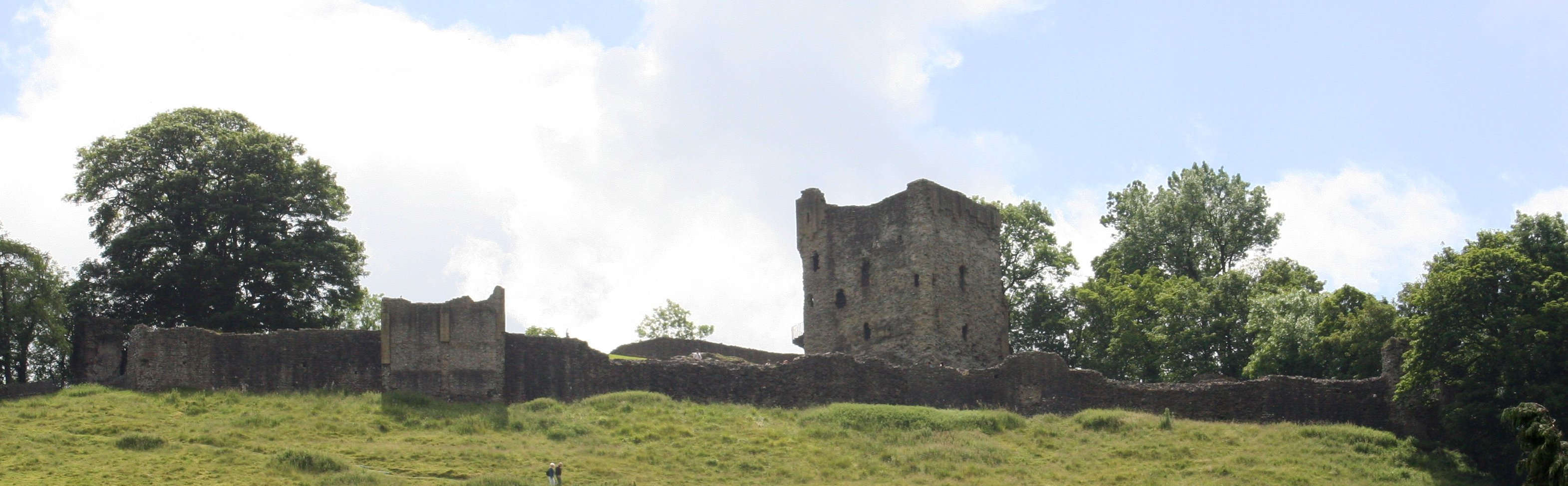 Peveril Castle, viewed from the bottom of the hill in Castleton.